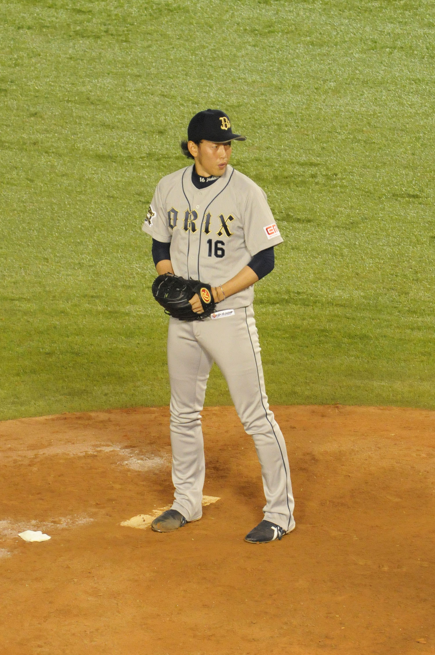 Yoshihisa Hirano, pitcher of the Orix Buffaloes, at Chiba Marine Stadium.